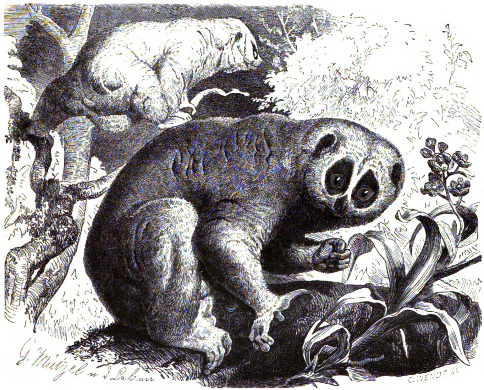 Bengal Slow Loris (Nycticebus bengalensis): Plumplori = genus Nycticebus in German; Stenops tardigradus Syn. Loris tardigradus